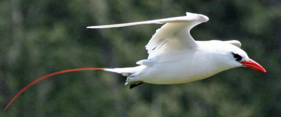 Red-billed Tropicbird (Phaethon rubricauda) – Kilauea Point, Kauai, Hawaii